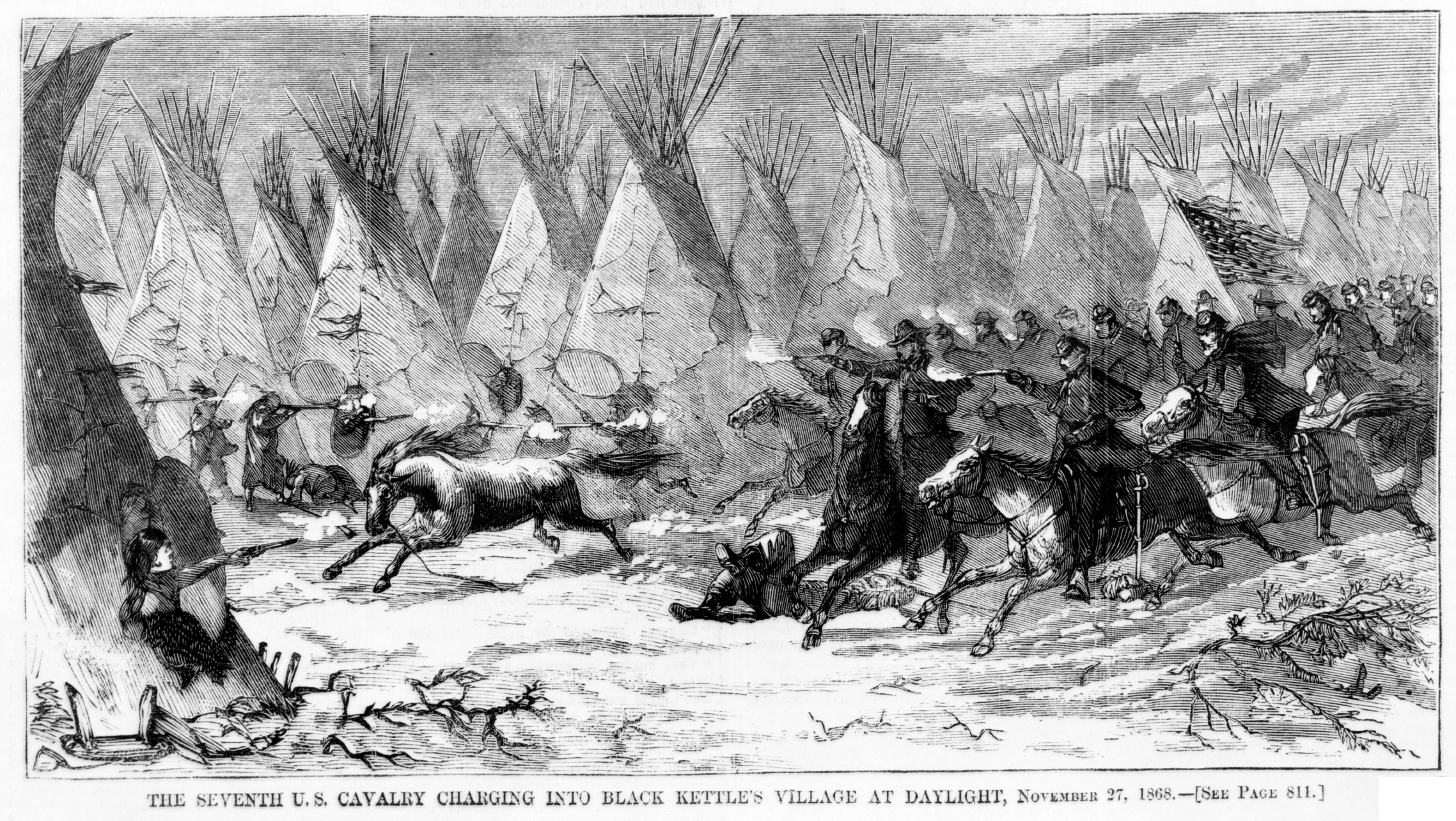 Downloaded from TITLE: The Seventh U.S. Cavalry charging into Black Kettle's village at daylight, November 27, 1868. CALL NUMBER: Illus. in AP2.H32 1868 Case Y [P&P] REPRODUCTION NUMBER: LC-USZ62-117247 (b&w film copy neg.) RIGHTS INFORMATION: No known restrictions on publication. MEDIUM: 3 prints (1 page) : wood engraving. CREATED/PUBLISHED: 1868. NOTES: Illus. in: Harper's weekly, v. 12, 1868 Dec. 19, p. 804.